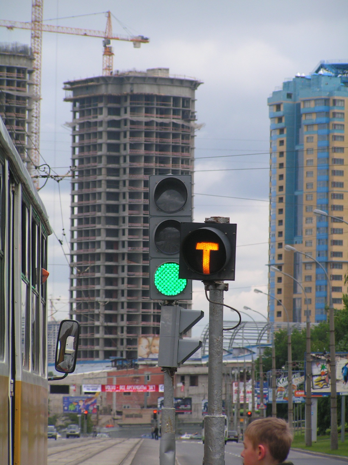 Simple tram signal in Moscow, clear.